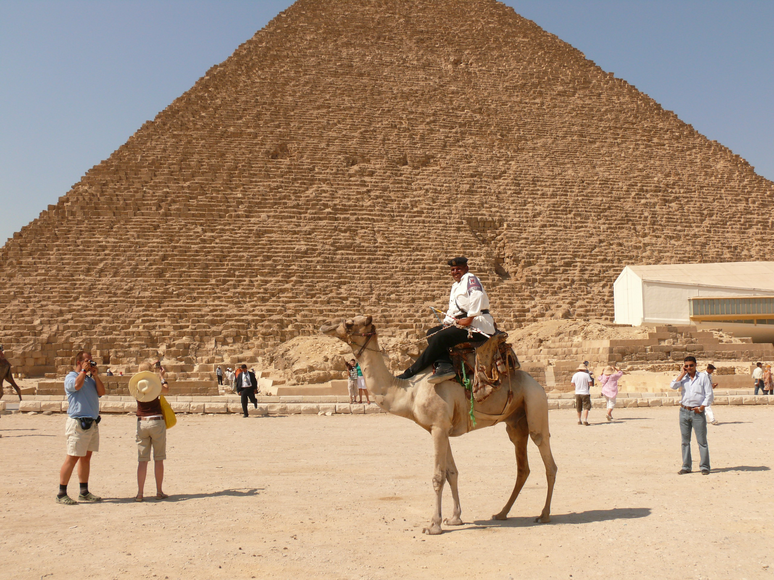 A policeman riding a camel in Giza, Egypt.